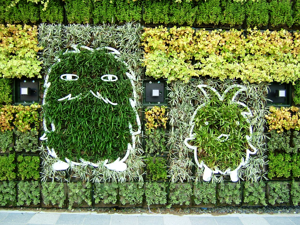 MORIZO_and_KIKKORO(Biolung).